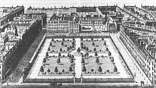 Leicester Square in 1750, looking north. The large house set back behind a forecourt at the north east corner is Leicester House, then the residence of Frederick, Prince of Wales.